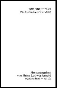 Book cover of Die Gruppe 47. Ein kritischer Grundriss